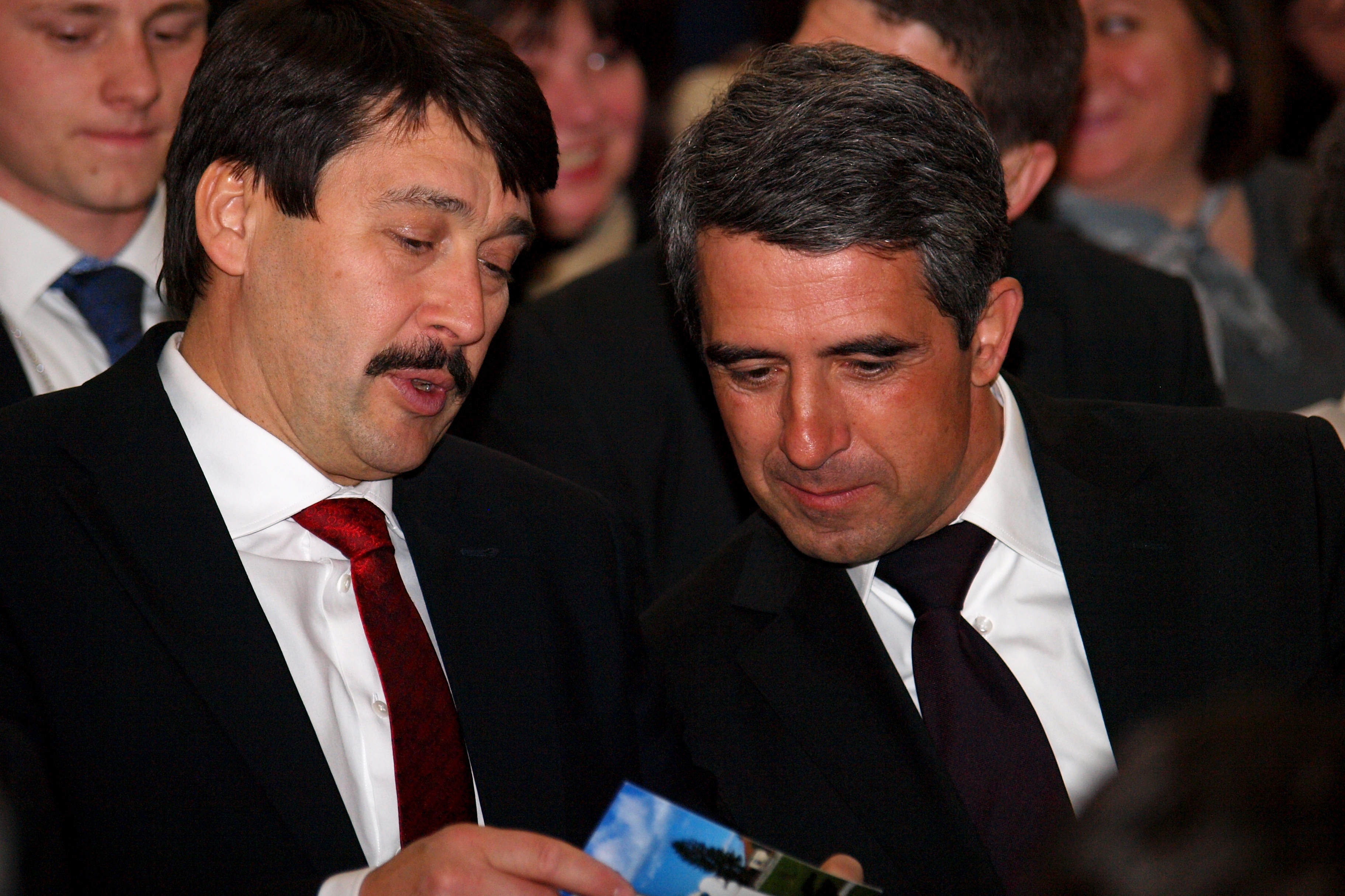 Hungarian President János Áder and Bulgarian President Rosen Plevneliev in April 2013